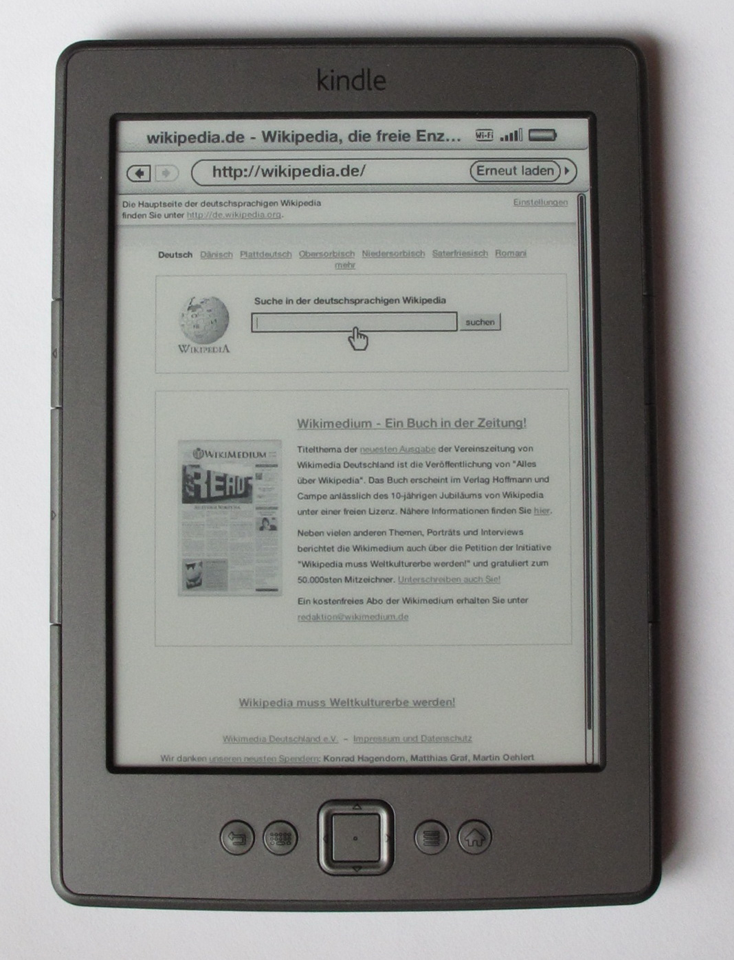 a Kindle 4, showing the German Wikipedia Website